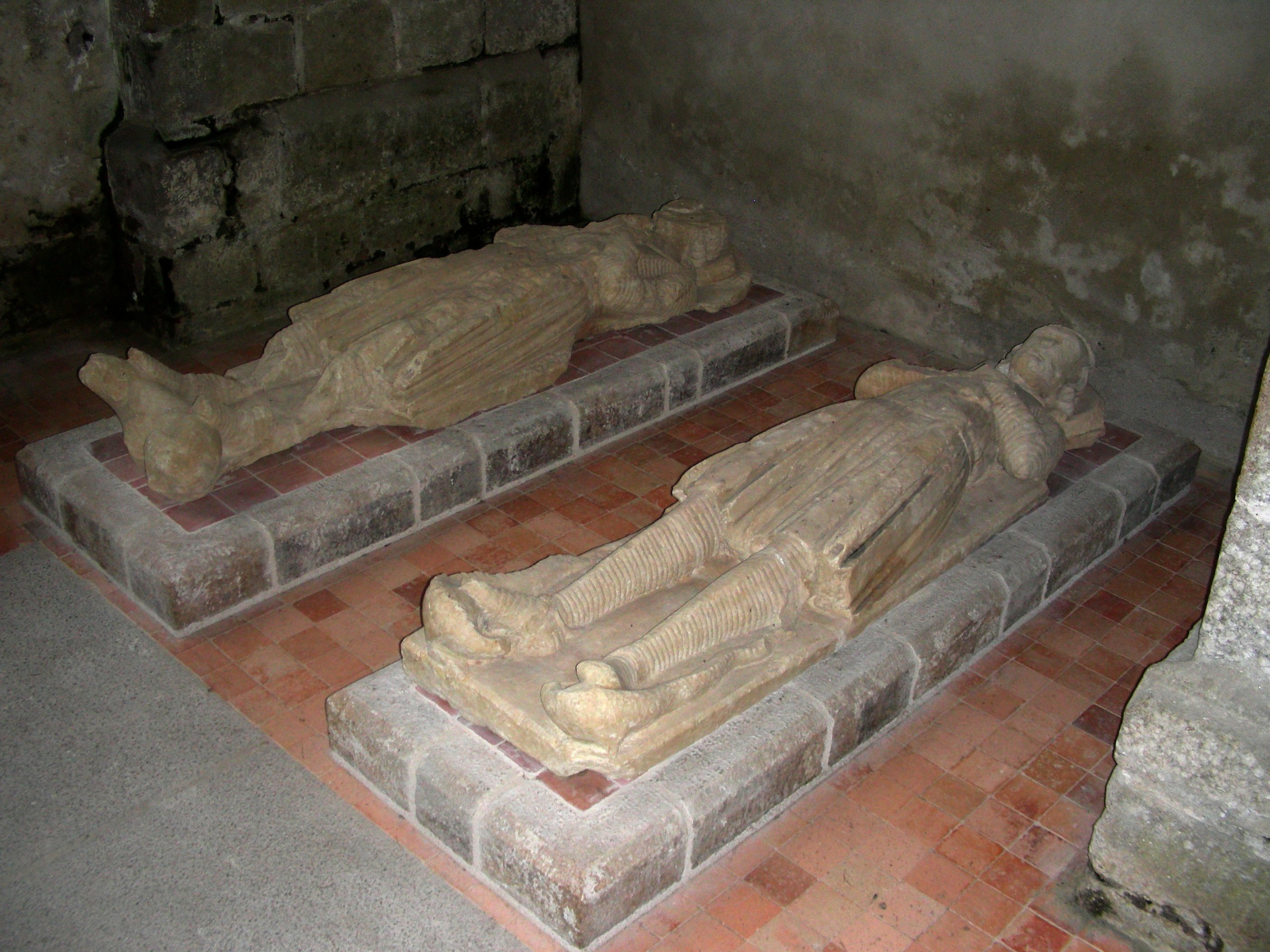 La Lucerne-d'Outremer (Manche, Normandy), inside of St Trinity abbey church, recumbent effigies.